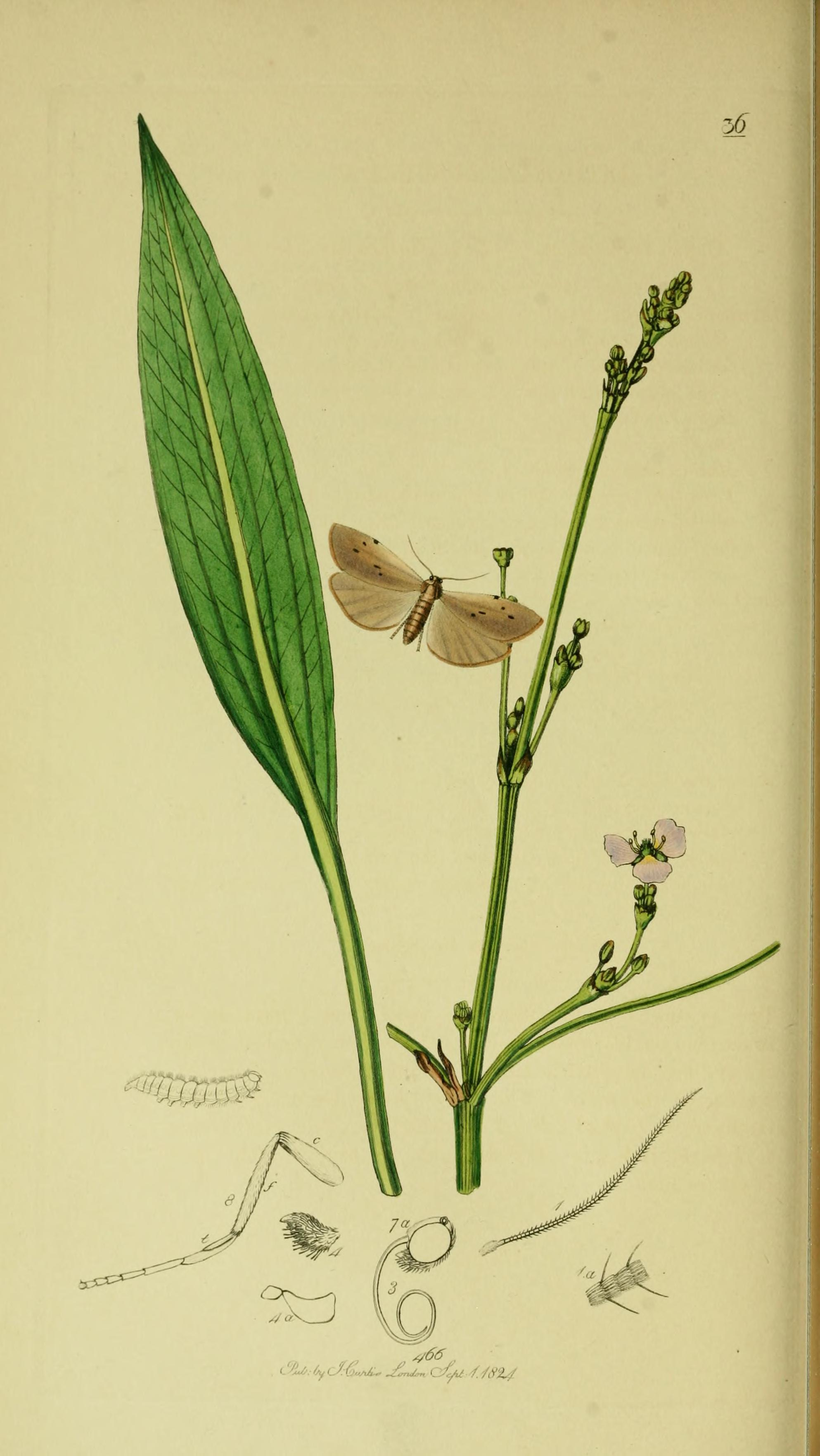 An illustration from British Entomology by John Curtis. Lithosia muscerda or Pelosia muscerda (Dotted Footman).